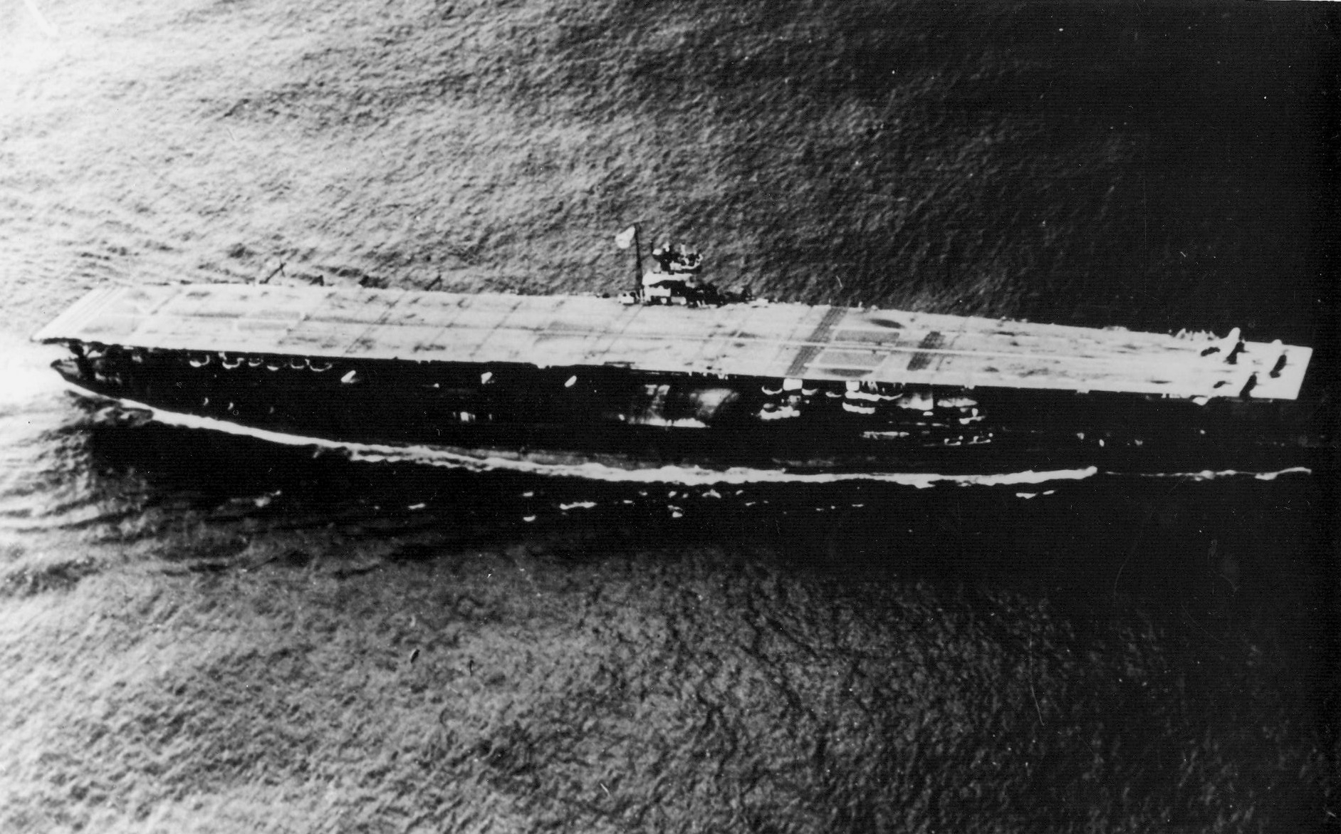 The Japanese aircraft carrier Akagi pictured underway in the Summer of 1941.